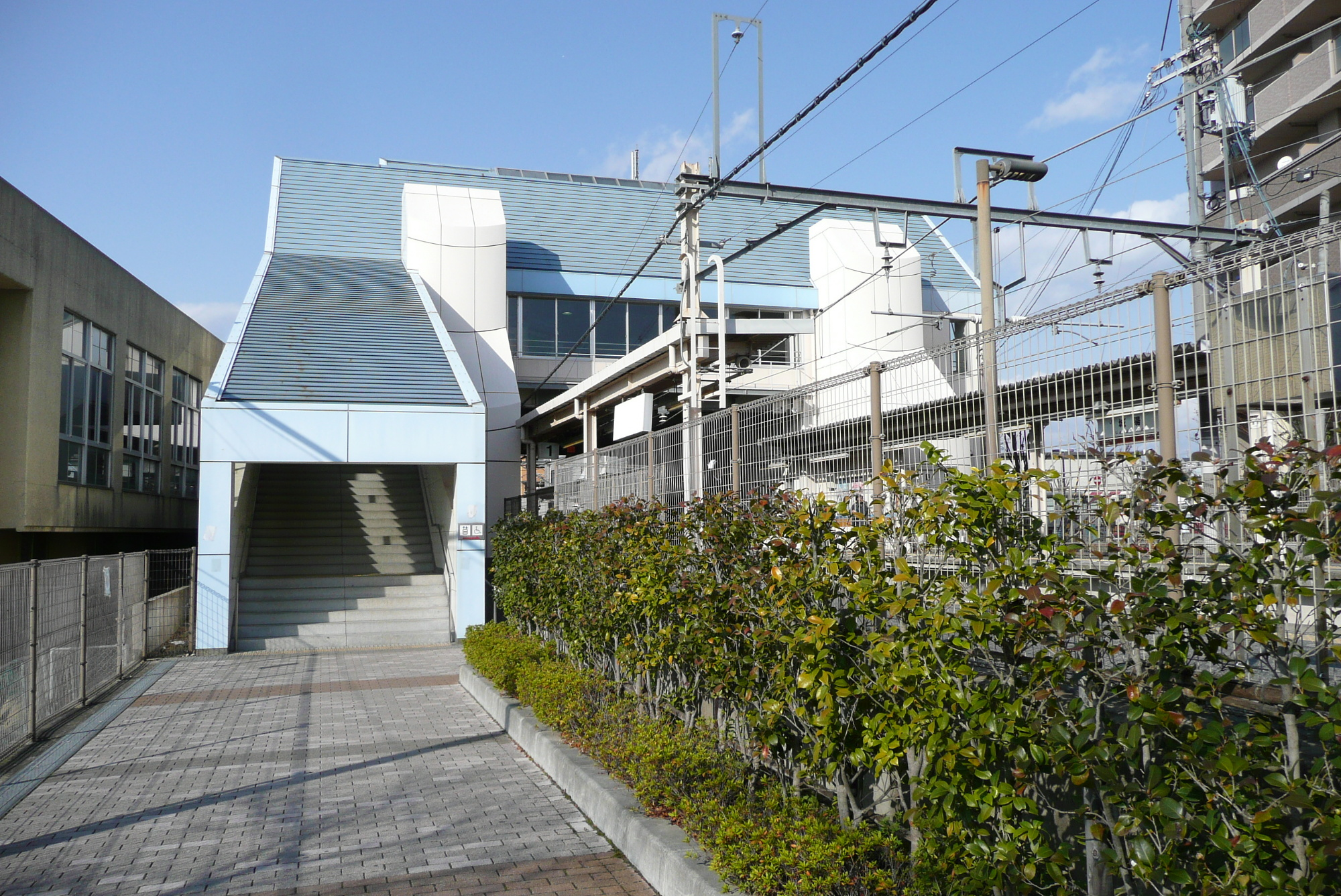 West Japan Railway, Nara Line, Jōyō Station west entrance.